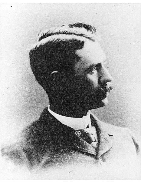 Filed in Portraits--Fisher, Elmer Elmer H. Fisher (ca. 1840-1905) was born in Edinburgh, Scotland. He began practicing architecture in Victoria, British Columbia, in 1886, after years spent in Minneapolis, Denver, and Butte, Montana. He produced residential and commercial buildings in a number of Canadian cities before practicing in the state of Washington. Fisher was Seattle’s foremost commercial architect in the few years surrounding the great fire of 1889. His extensive Romanesque and Classical Revival building programs, which reflected the architecture of great empires of the past, asserted the economic optimism of the city rising from its ashes. This confidence propelled his initial success. Copy of a photograph in the book A General historical and descriptive review of the city of Seattle, Washington. Her resources and advantages, her unexcelled transportation facilities by rail and water. Her unrivalled industrial advantages and facilities for distribution as a wholesale and jobbing center. A graphic description of her many enterprises and select representation of her banking, shipping, professional and manufacturing interests. San Francisco Journal of Commerce Publishing Co., 1890 Subjects (LCTGM): Architects Subjects (LCSH): Fisher, Elmer H., ca. 1840-1905